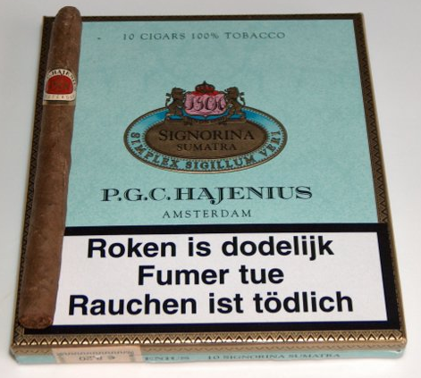 Signorina Sumatra cigars by P. G. C. Hajenius.